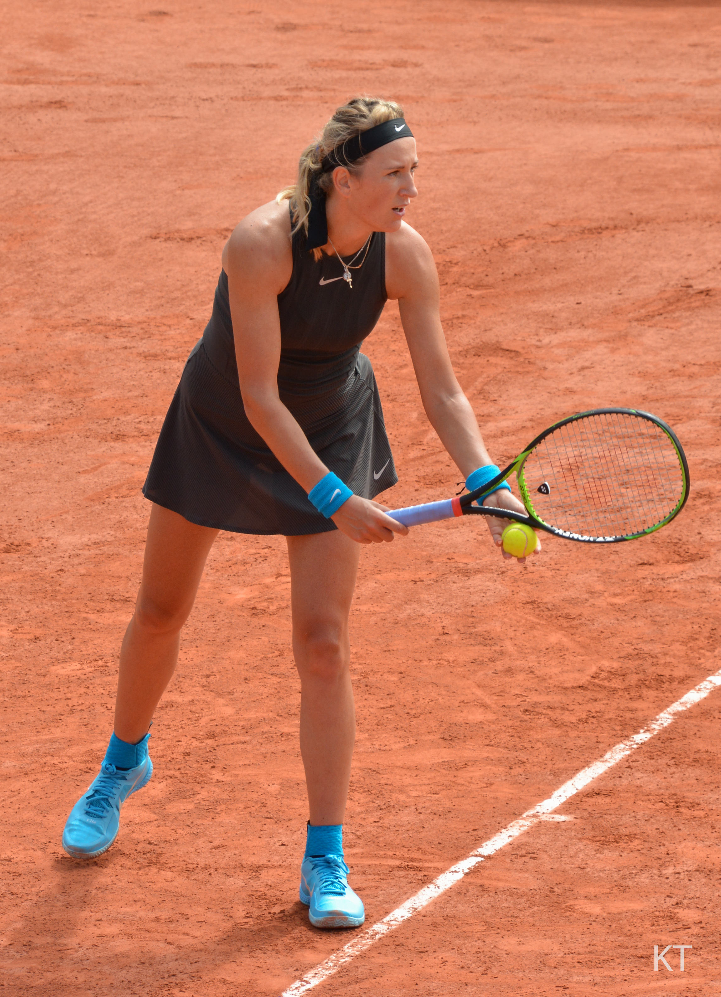 Day 2 of Roland Garros 2018.